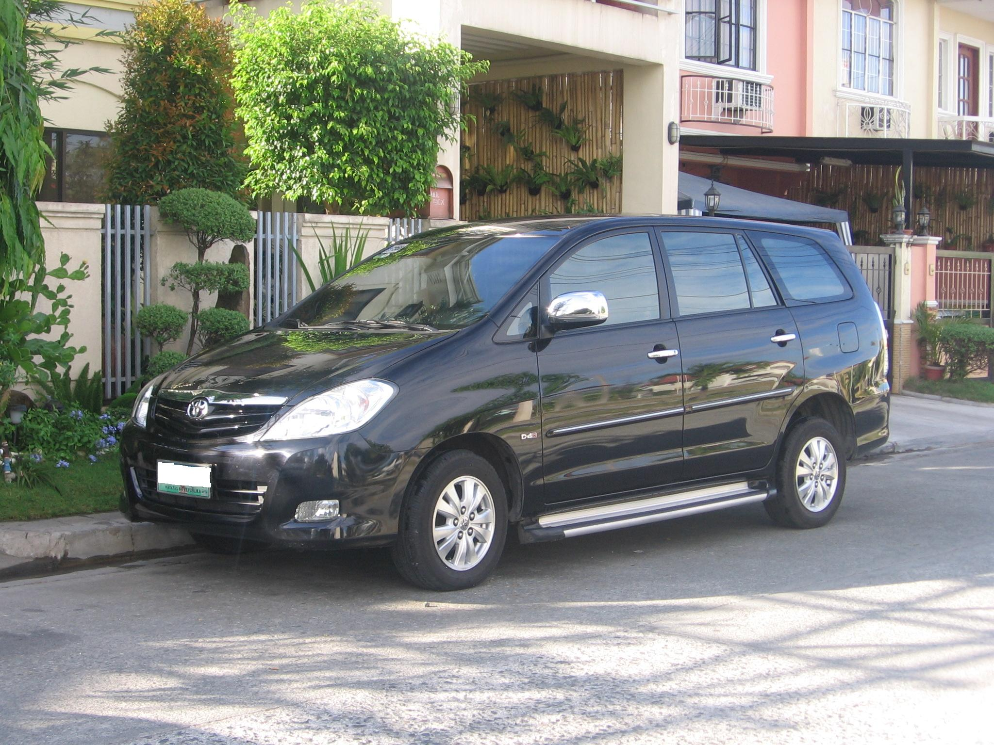 2009-2010 Toyota Innova photographed in Cainta Rizal